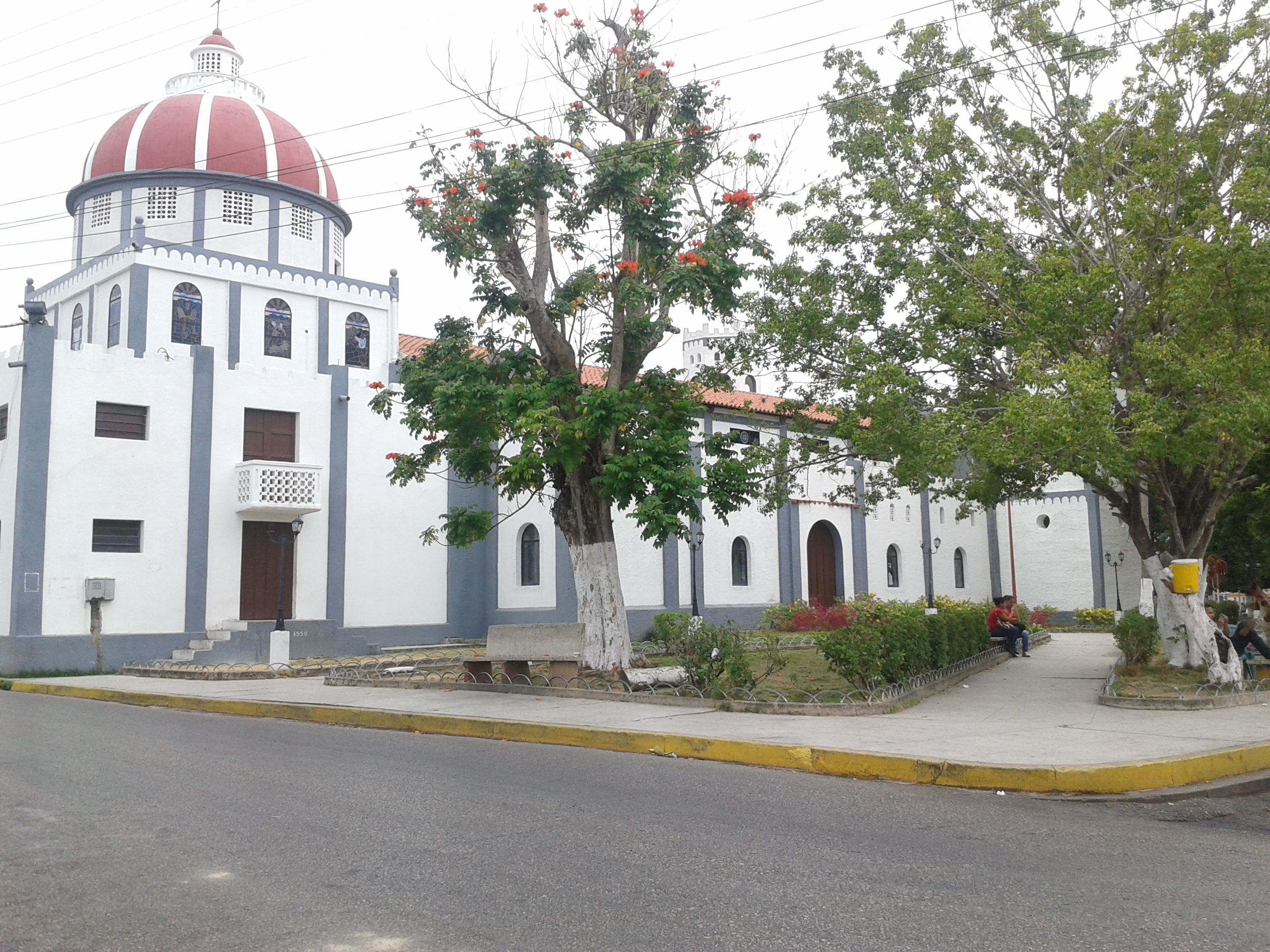 Iglesia reconstruída después del terremoto de Cariaco, estado Sucre.